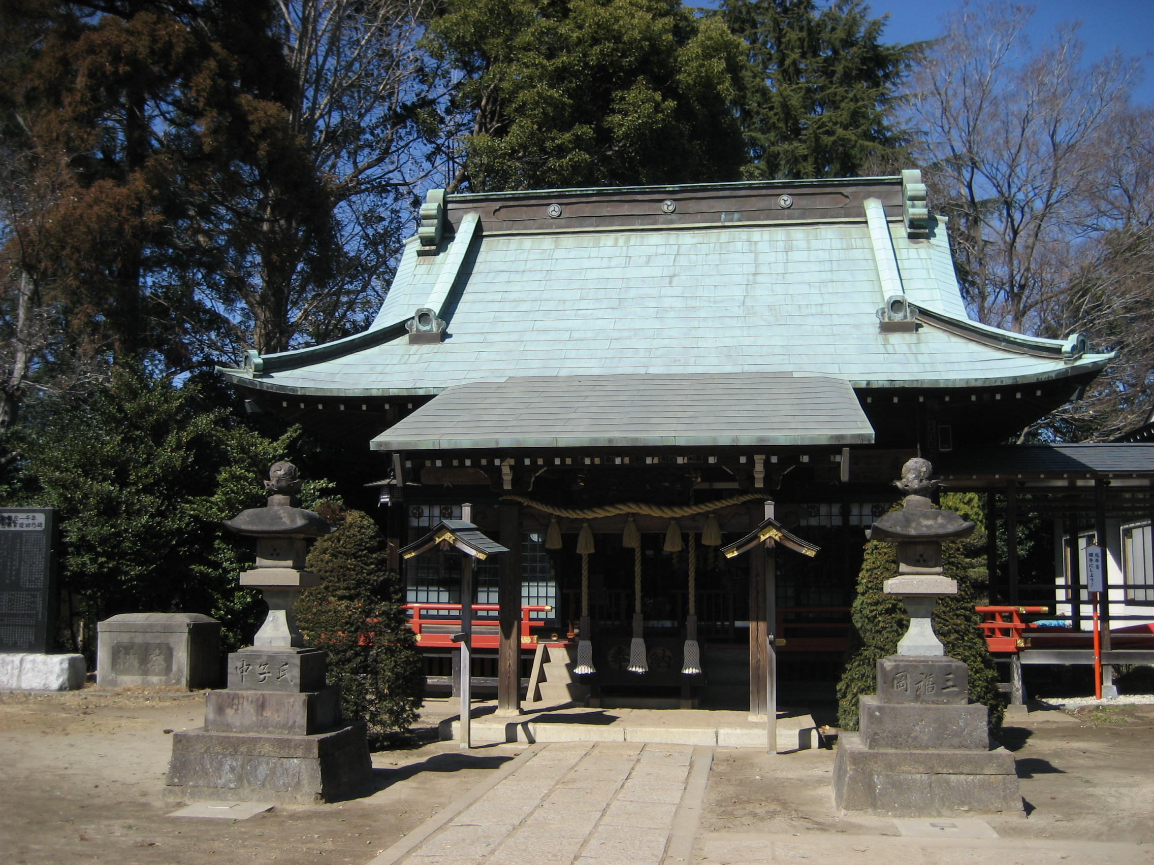 front entrance